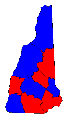 County results map of 2002 senate election in NH